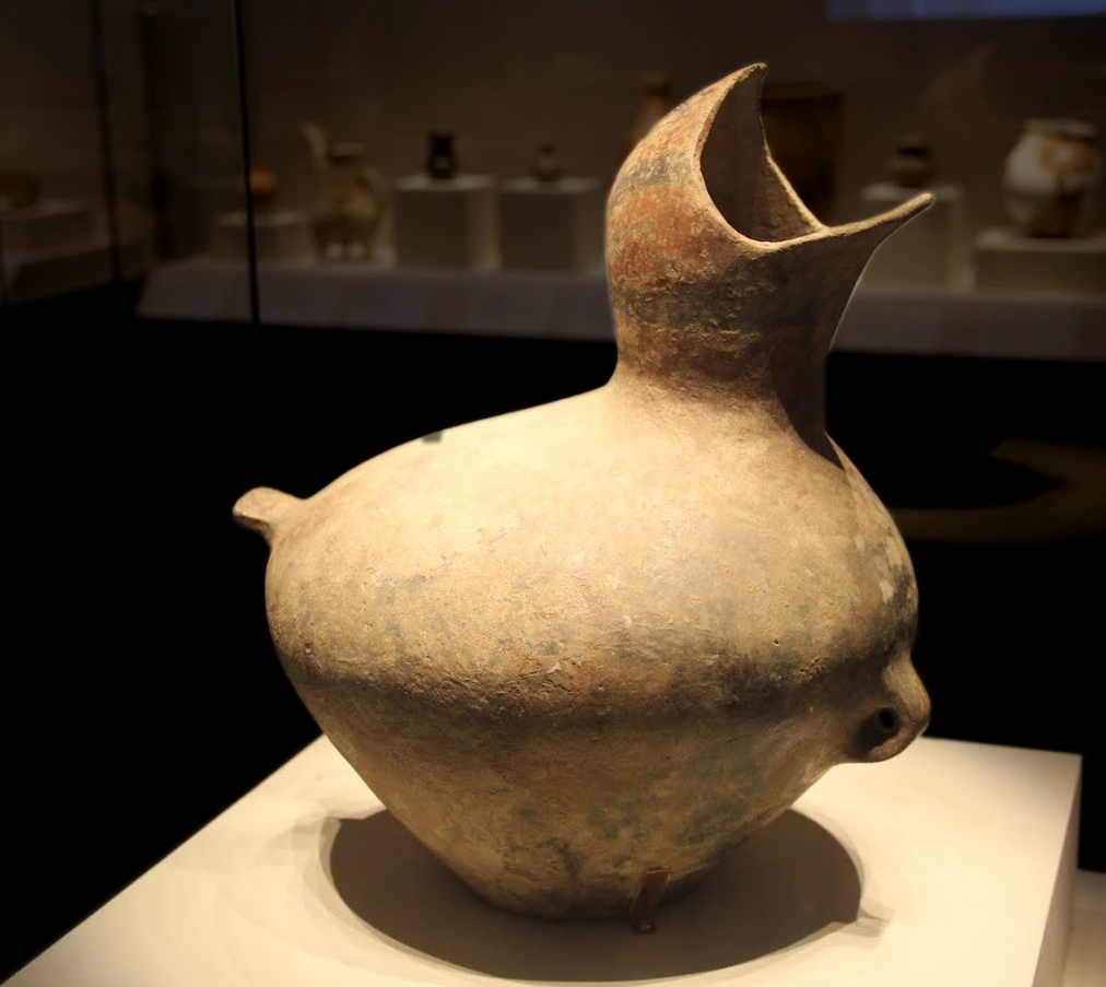 Neolithic bird-shaped pottery jar, Xiaoheyan Culture (3000-2600 BCE) after the Hongshan culture, Liao River Region. Unearthed in Inner Mongolia, 1977. National Museum: China Through the Ages, exhibit 2011